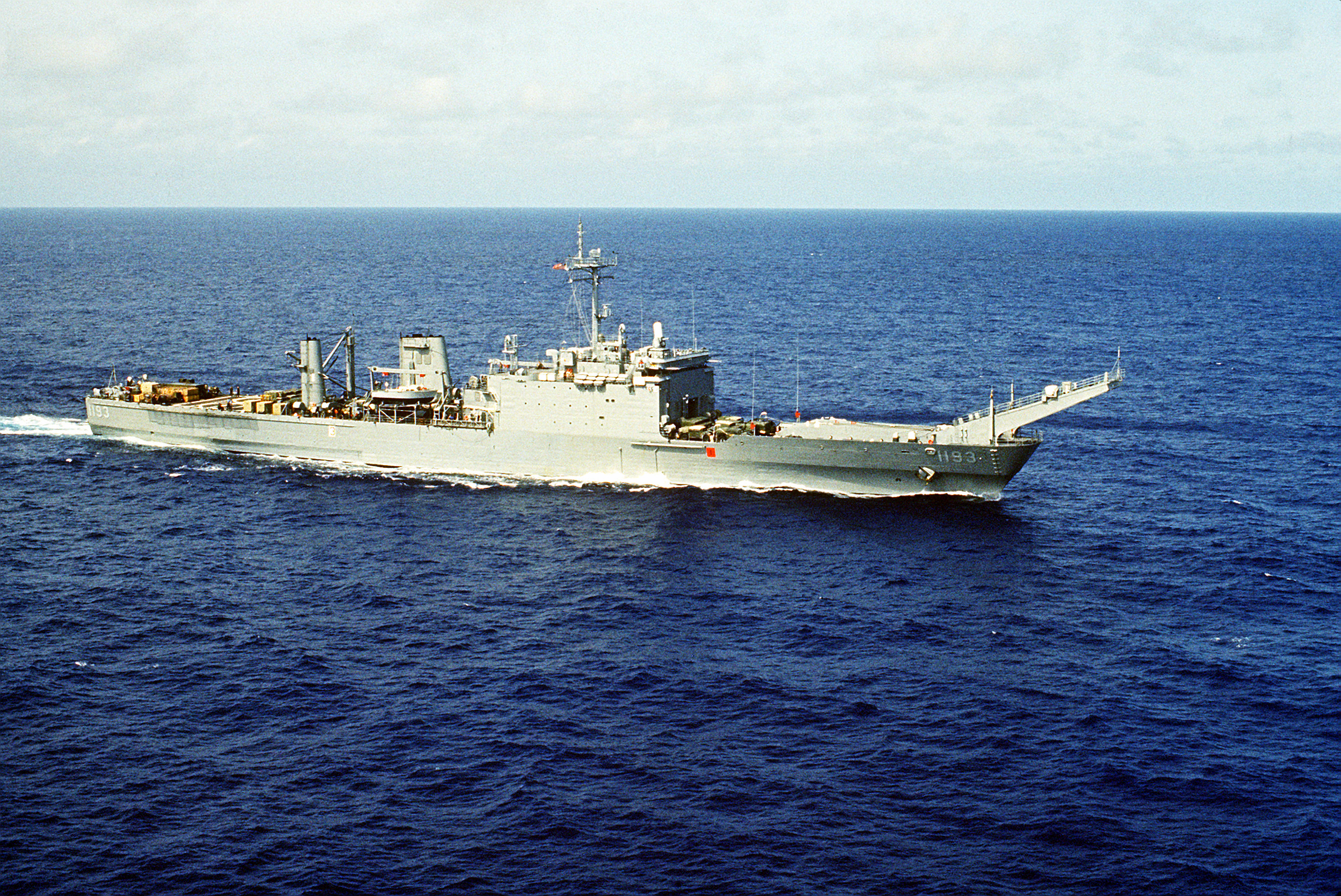 A starboard bow view of the tank landing ship USS FAIRFAX COUNTY (LST-1193) underway during the joint service exercise Ocean Venture '93.